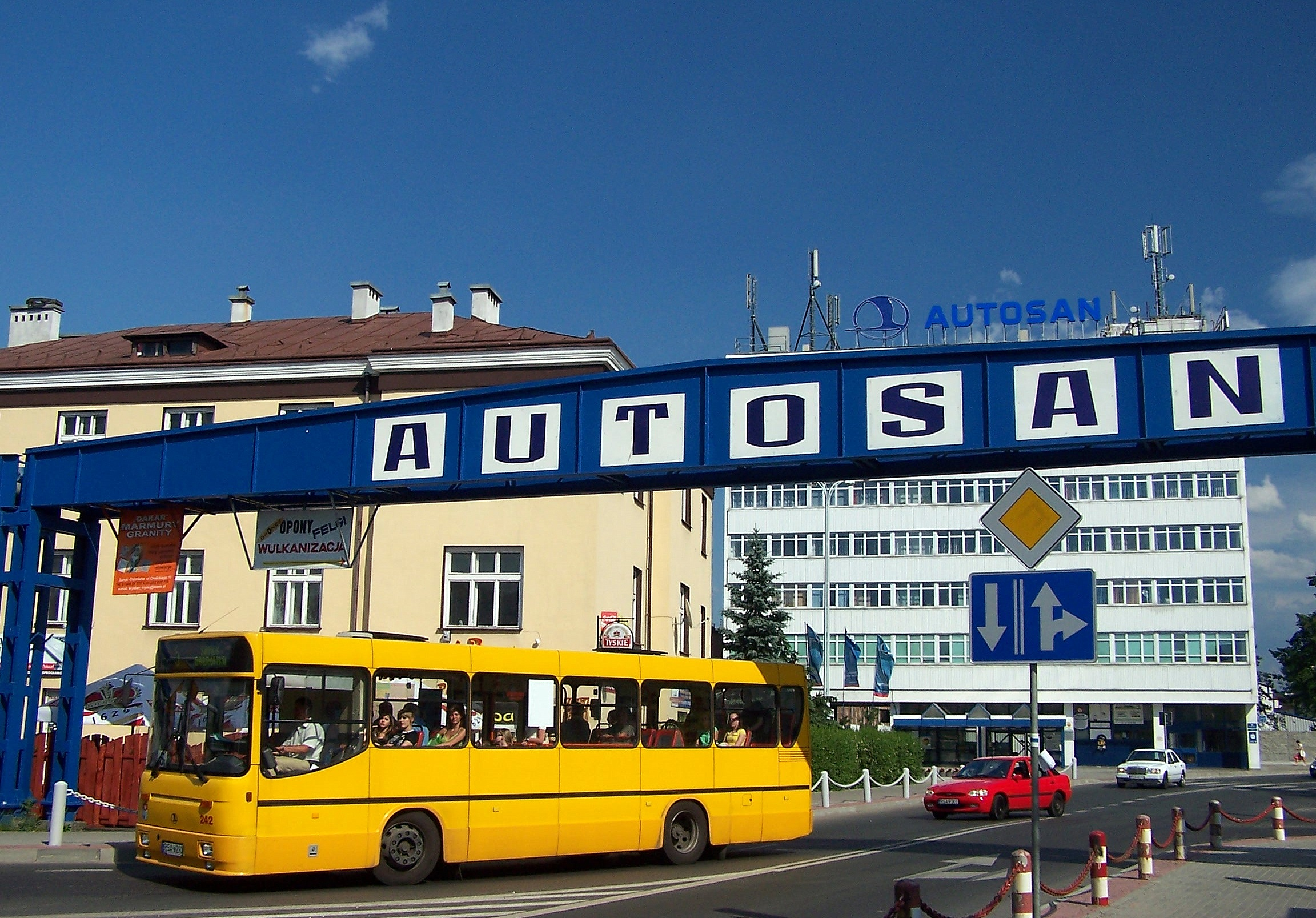 Autosan office building with a bus drivig by the Lipinskiego Street in Sanok, Poland. Autosan A1010M.11 Medium city bus (#242), built 2003, MKS Sanok operator.